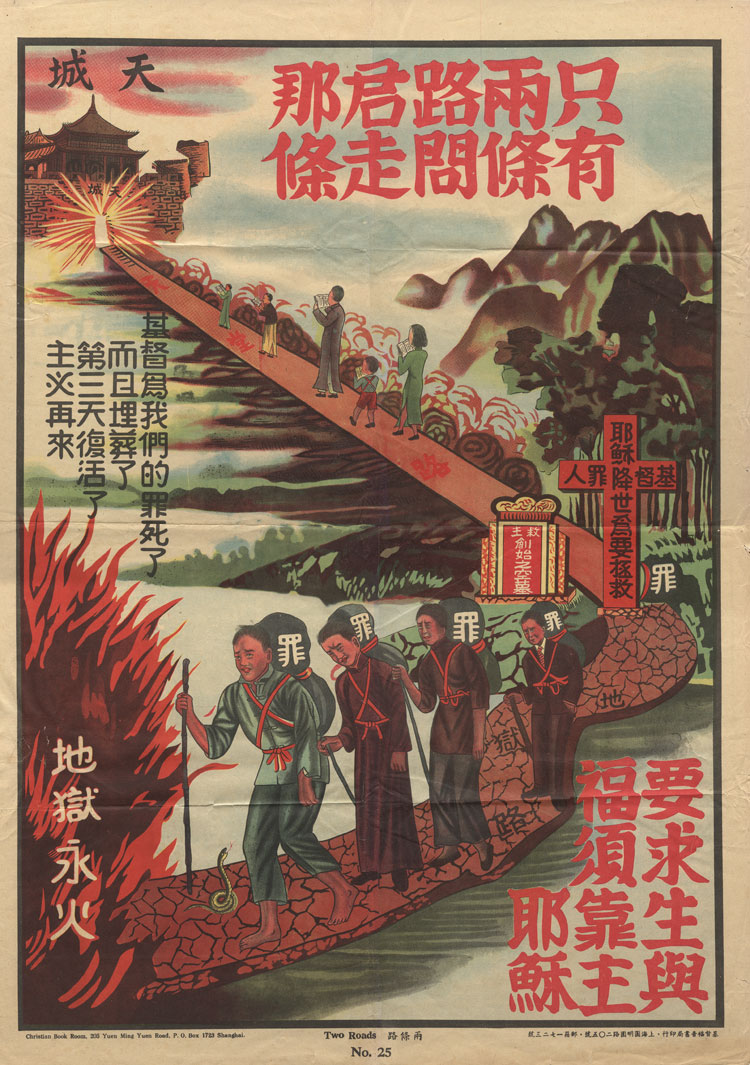 Poster used for evangelisation in China illustrating the two roads to Heaven and Hell (Matthew 7:13-14)